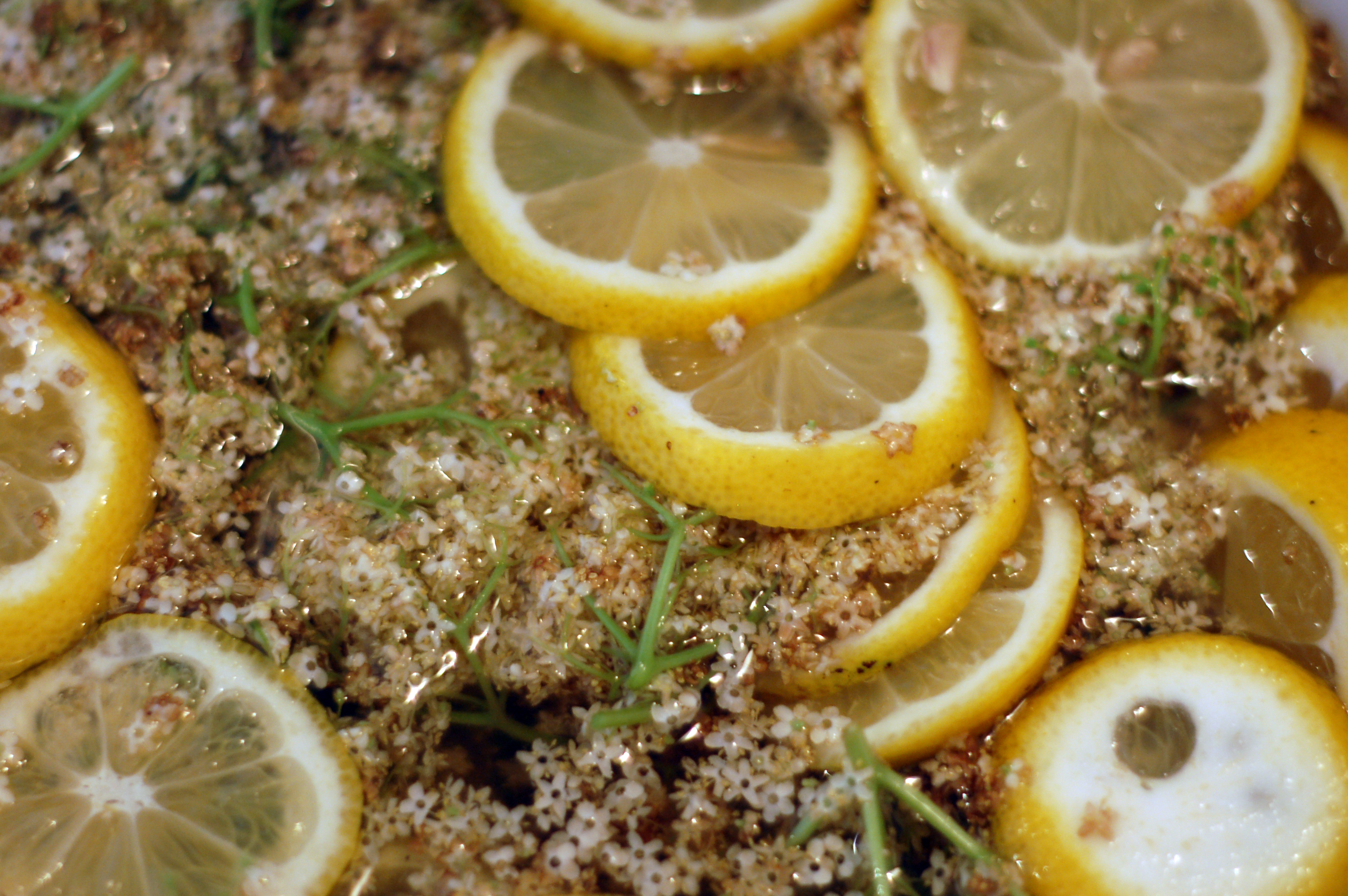 Making of elder flower juice